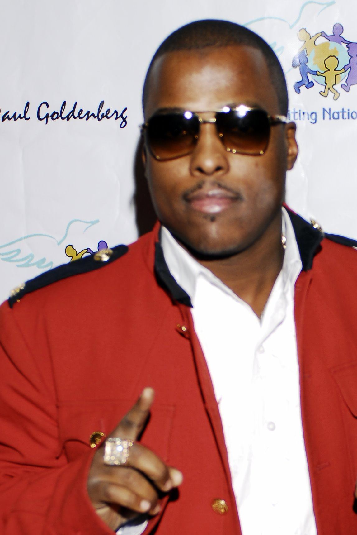 Warren G at the 79th Annual Academy Awards Children Uniting Nations/Billboard afterparty.